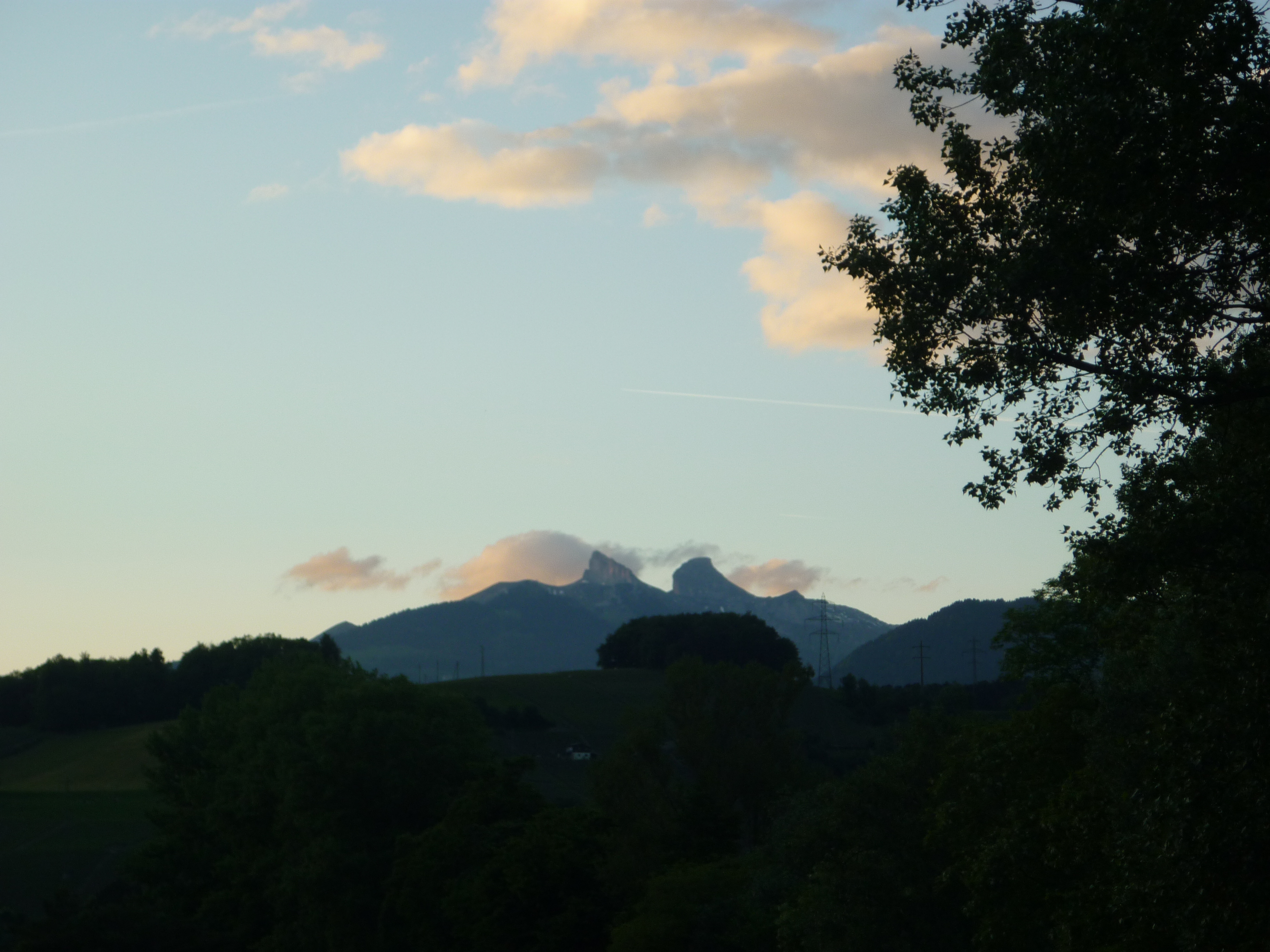 Tour d'Ai & Tour de Mayen, viewed from Vérossaz